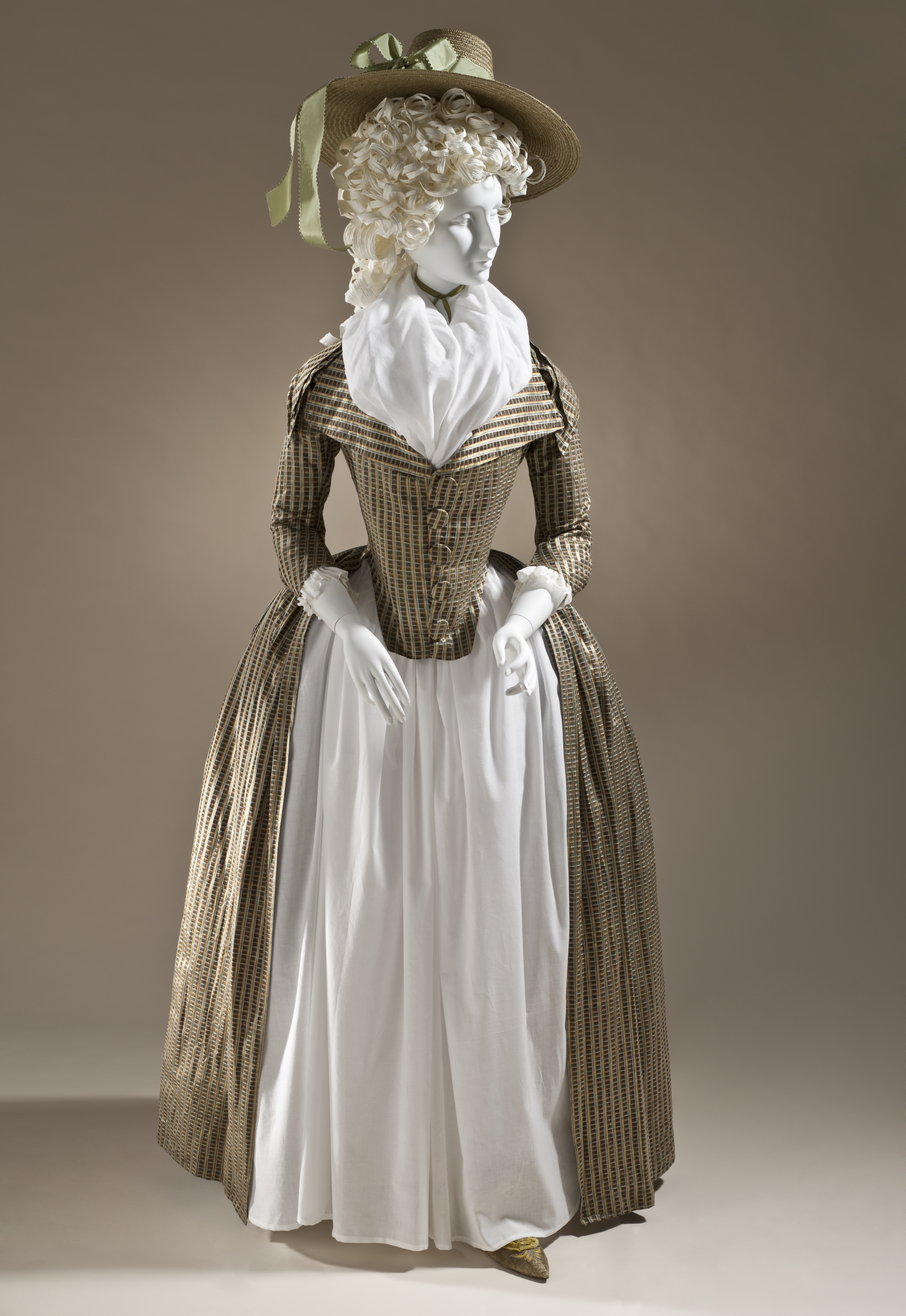 Woman’s redingote, Europe, circa 1790. Silk and cotton satin and plain weave.